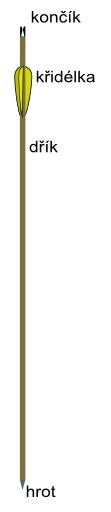 arrow